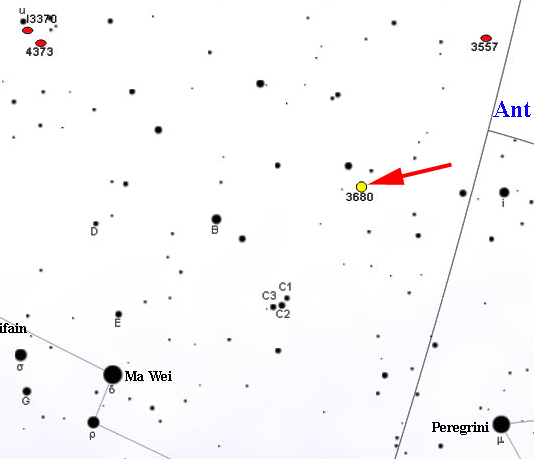 Map of NGC 3680